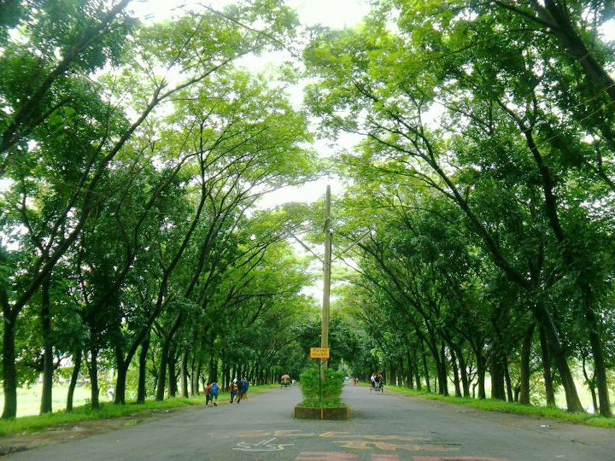 The 1 km entrance way from the University gate to campus; located at Shahjalal University of Science and Technology.